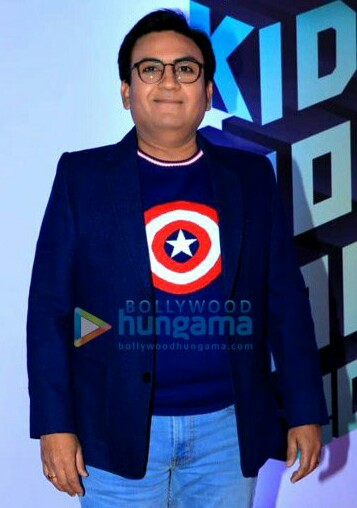 Dilip Joshi at Nickelodeon Kids Choice Awards 2019